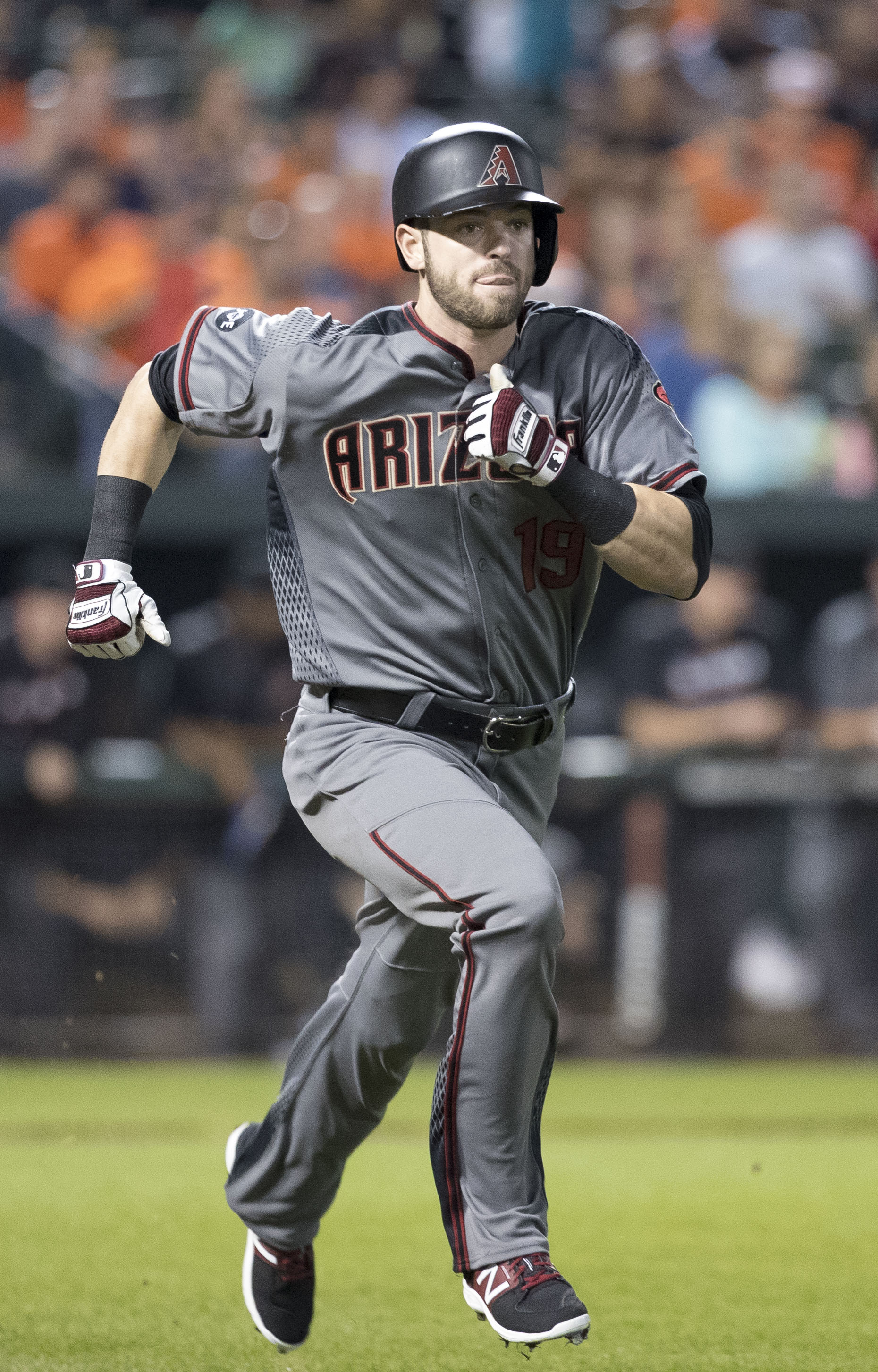 Diamondbacks at Orioles 9/24/16